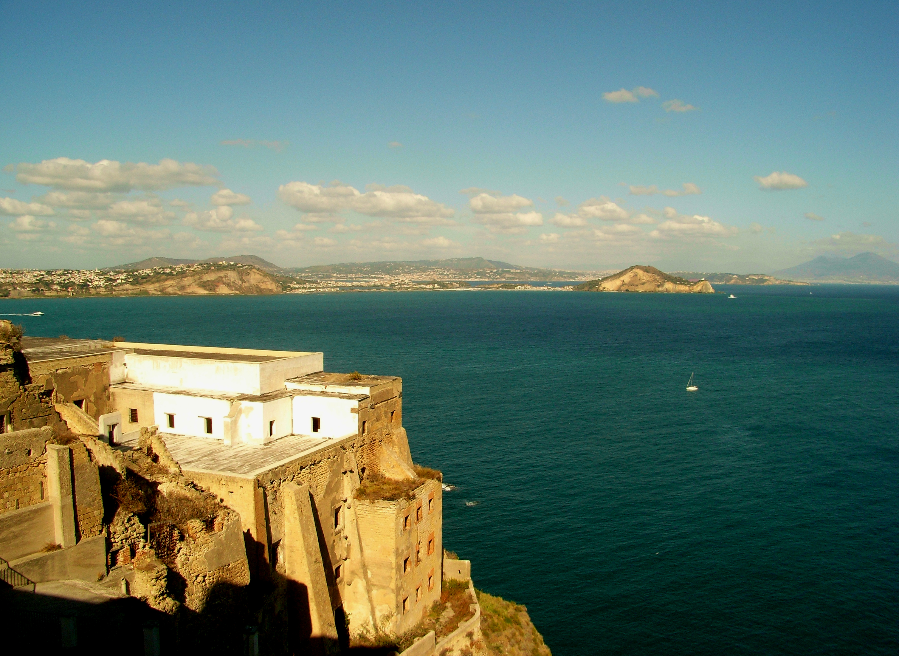 Cap Miseno view from Procida island (Terra Murata).